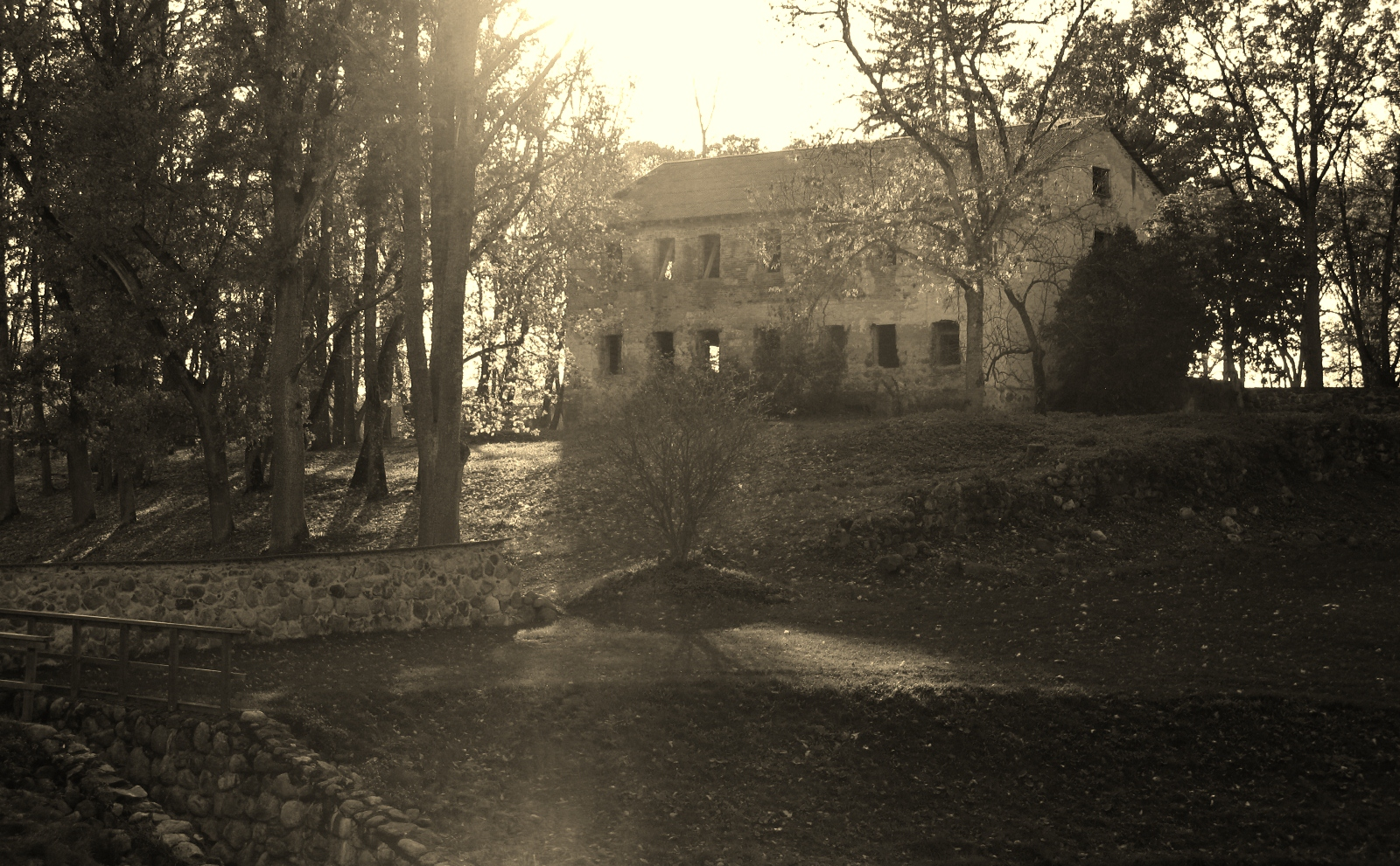 Image of the Steward's House. Main building was destroyed in the war.